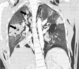 modification of Image:Bronchial rupture.jpg. a patient with complete disruption of the right bronchus. Caption reads, "Coronal view demonstrating multiple areas of alveolar consolidation in the right upper and lower lobes: intraparenchymal lucencies resulting from lung lacerations are visible on the right side (thick arrows)."